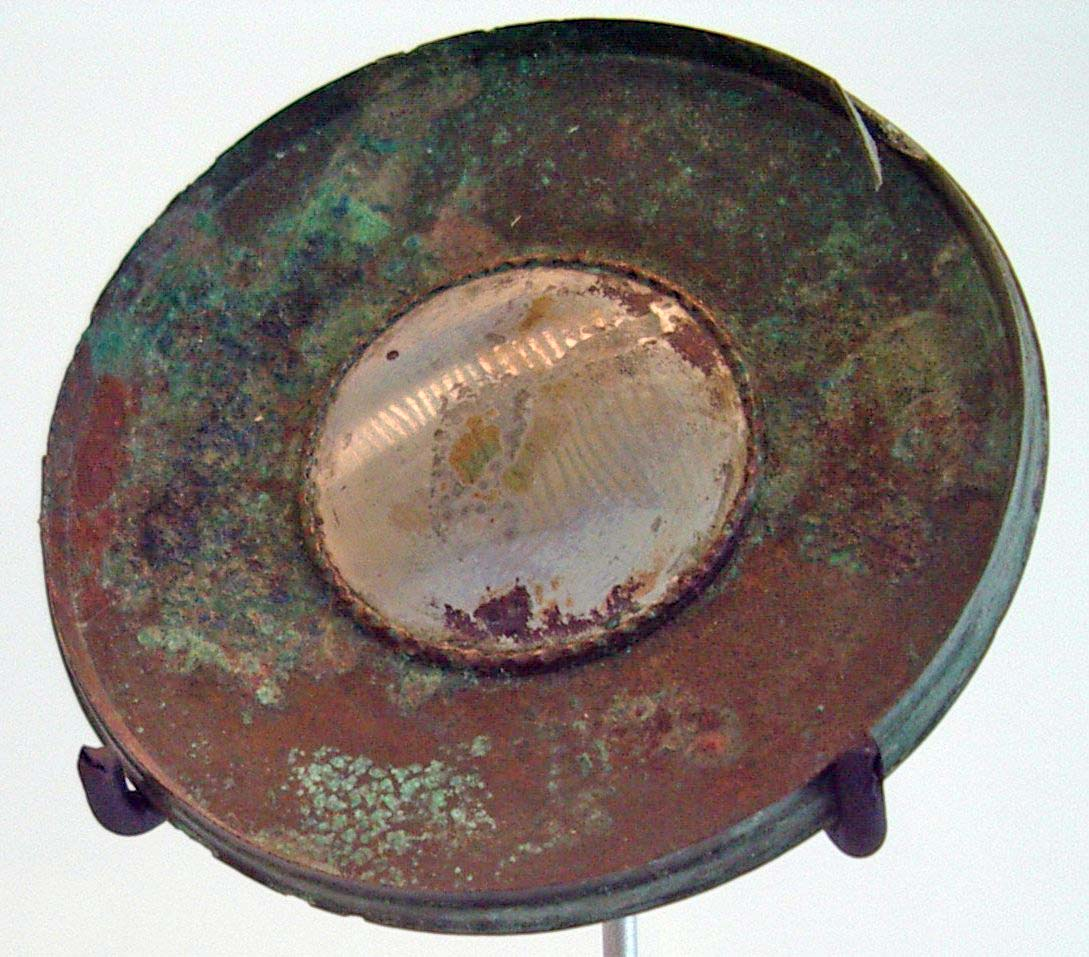 Roman mirror